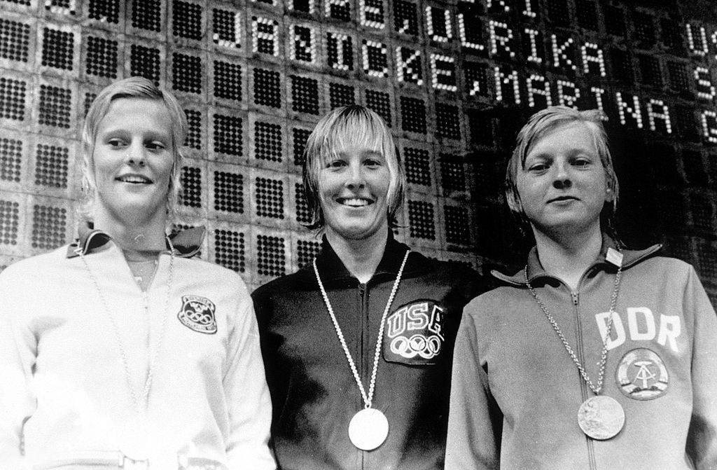 1972 Wire Photo Top 3 Winners Diving Olympics